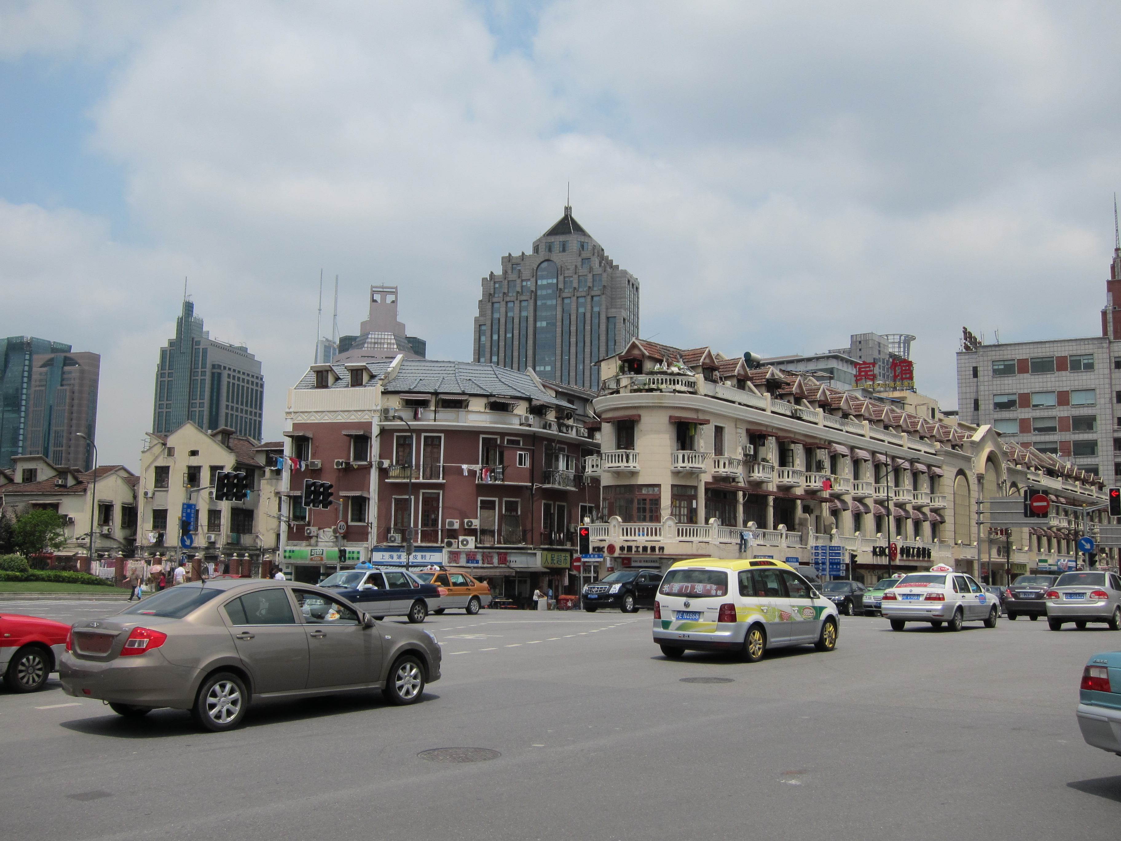 South Henan Road - Renmin Road, Shanghai